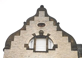 Heilbronn